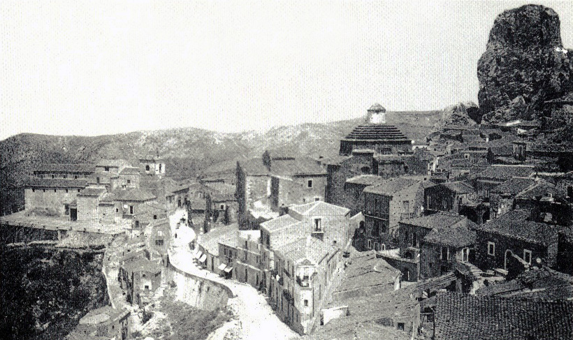 San Fratello, 1890